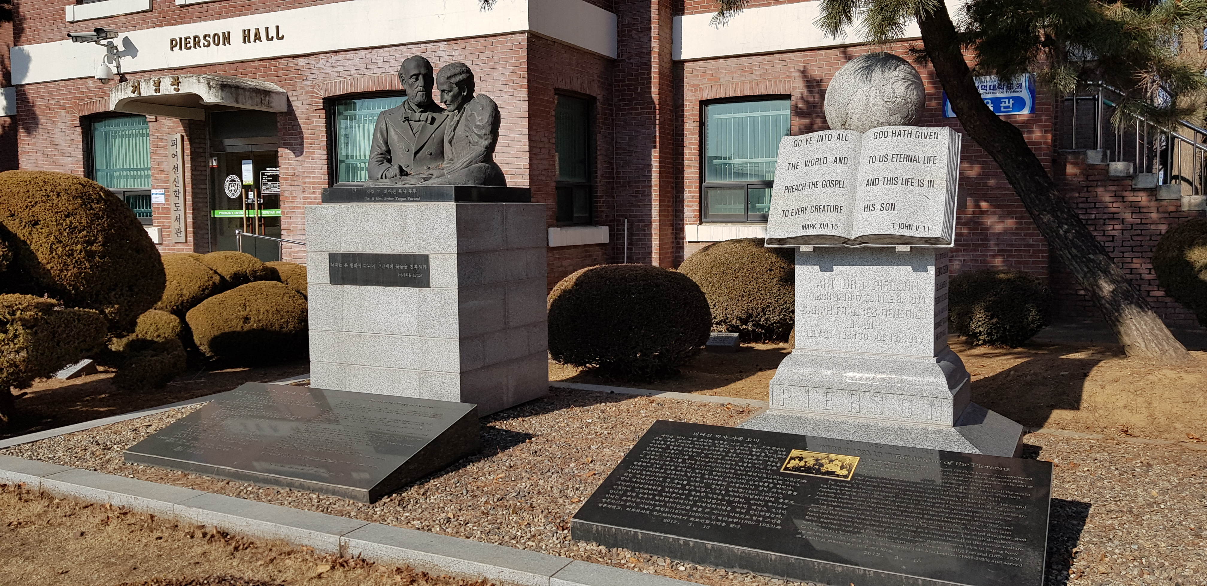 A.T. Pierson's View